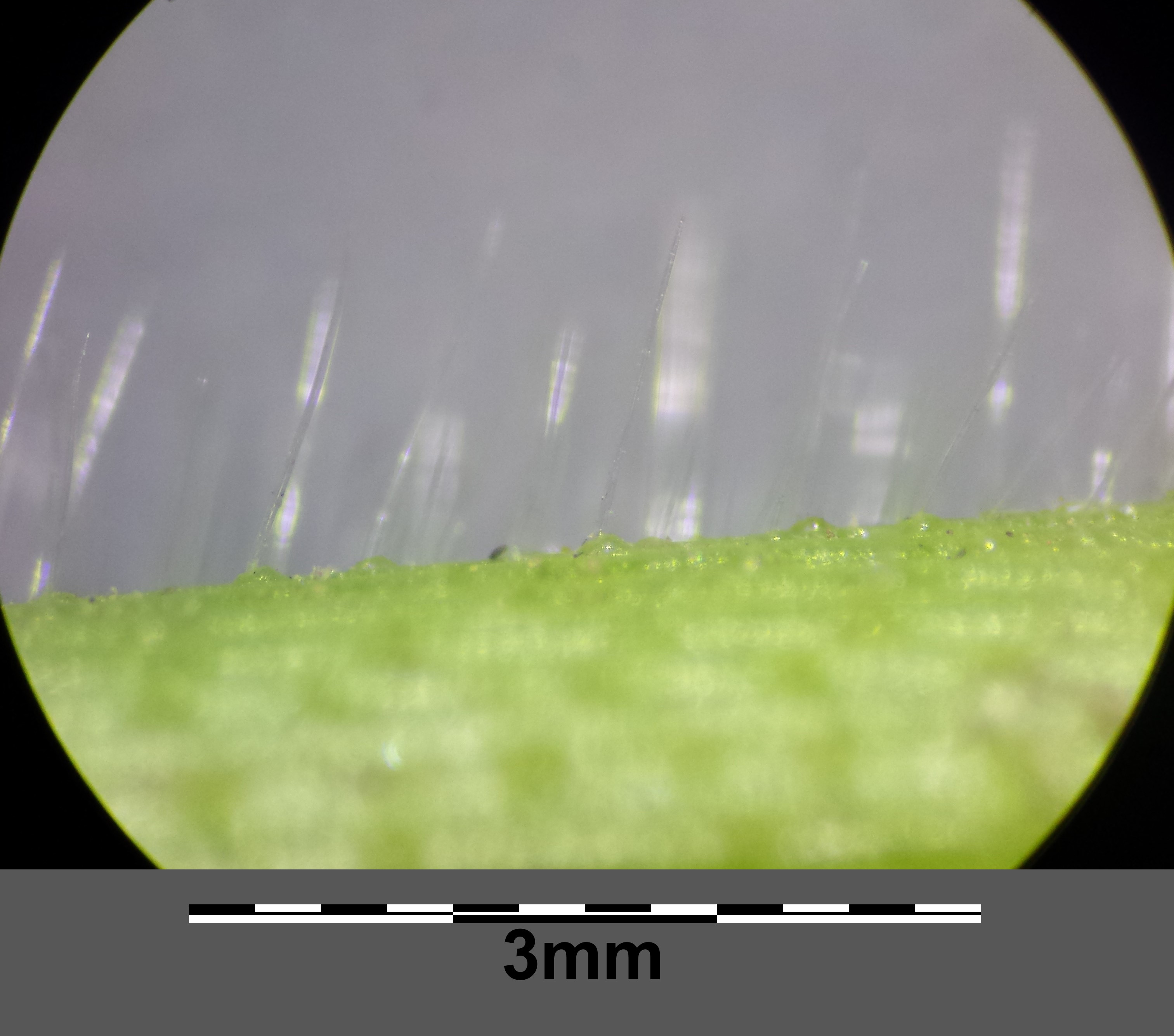 Hispid leaf sheath Taxonym: Panicum capillare ss Fischer et al. EfÖLS 2008 ISBN 978-3-85474-187-9 Location: Grellgasse, Vienna-Floridsdorf - ca. 160 m a.s.l. Habitat: slope